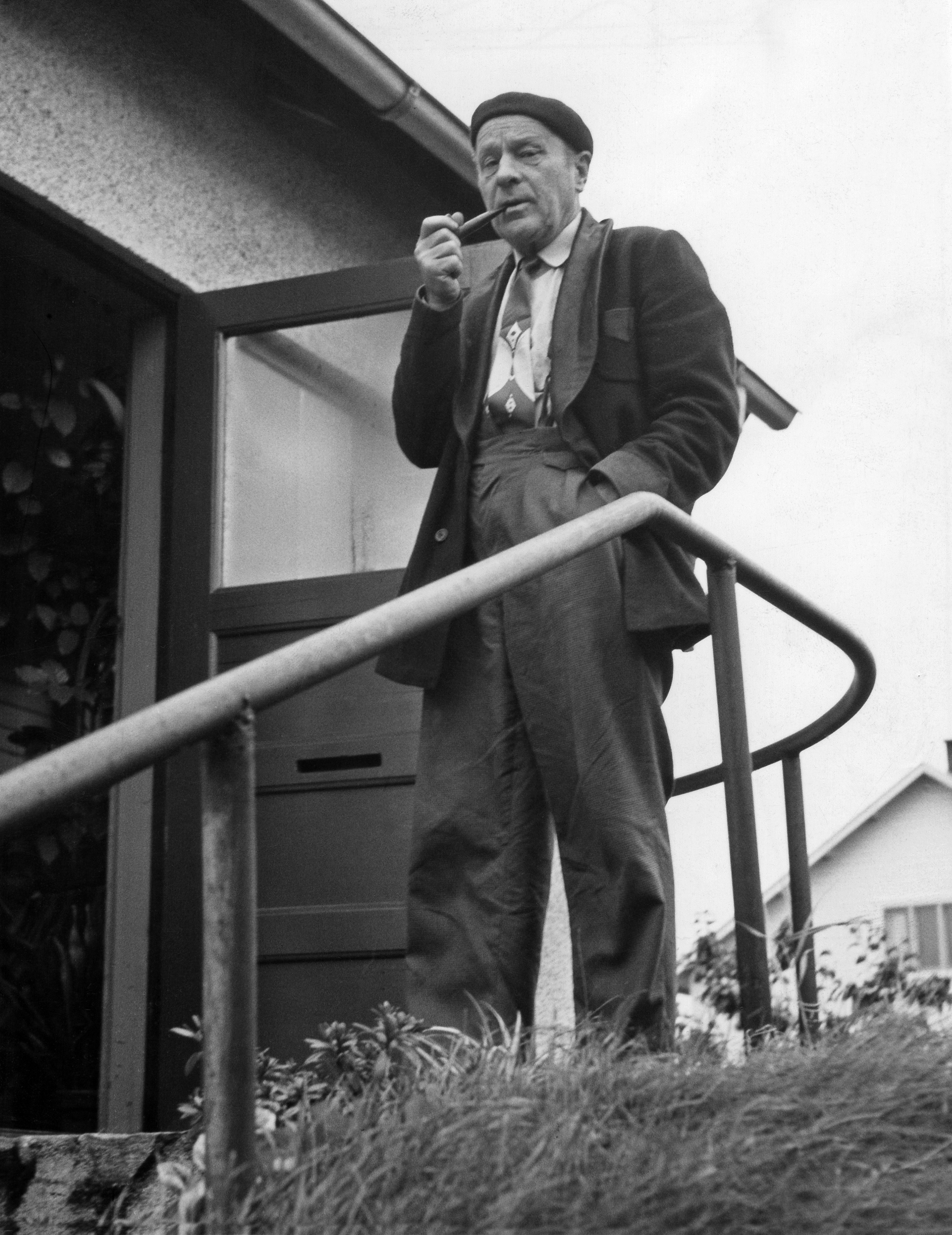 Photograph of the Finnish writer Martti Merenmaa (1896–1972).